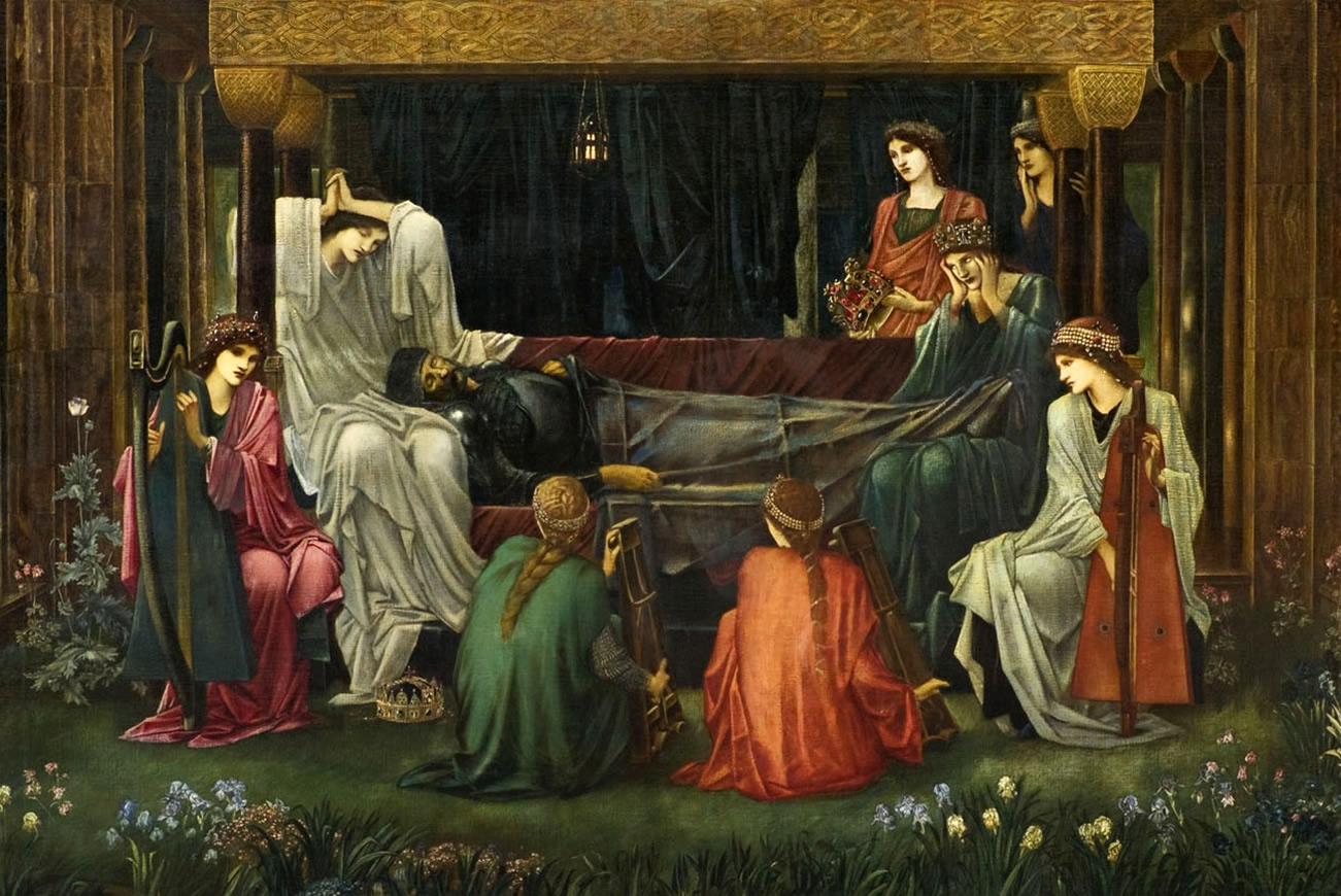 A detail of the painting The last sleep of Arthur by the Pre-Raphaelite painter Edward Burne-Jones.